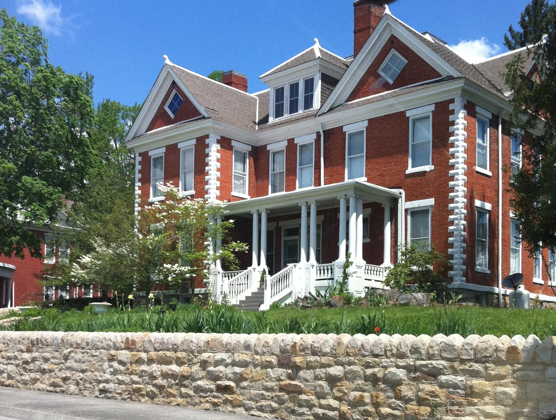 The E. M. Fulton House, located along State Route 640 in Wise, Virginia, United States. Built in 1905, the home is listed on the National Register of Historic Places.